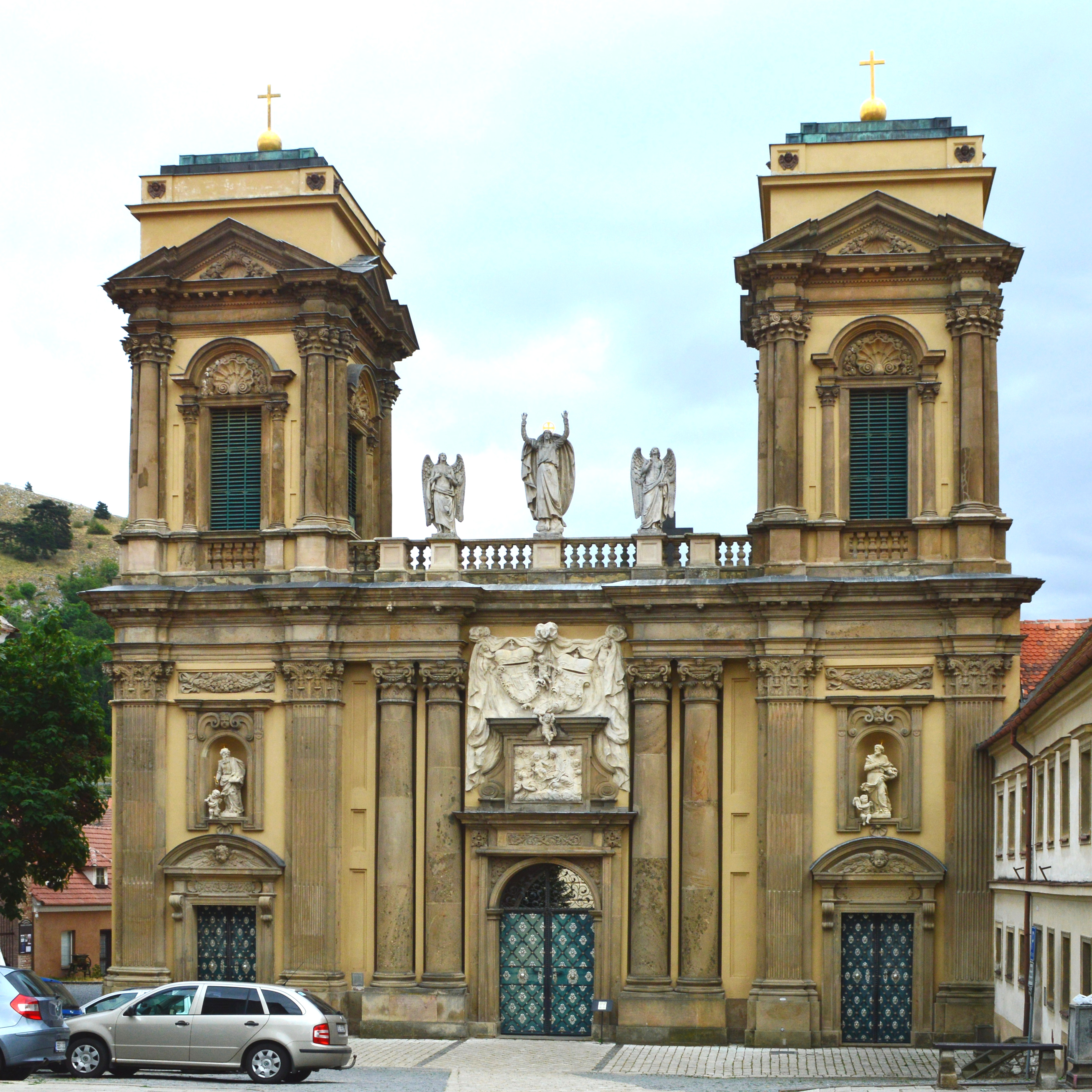 Mikulov is a town in the South Moravian Region of the Czech Republic. The town is part of the historic Moravia region, located directly on the border with Lower Austria. In the south, a road border crossing leads to the neighbouring Austrian municipality of Drasenhofen. Mikulov is situated between the Pavlovské vrchy hilly area and the edge of the Mikulov Highlands, stretching up to the Thaya river and the three Nové Mlýny reservoirs. The Pálava Protected Landscape Area begins in Mikulov, and so does the Moravian Karst. After the Margraviate of Moravia was established, the settlement of Nikulsburch was first mentioned in a 1249 deed, issued by the Přemyslid margrave Ottokar II who granted the land of Mikulov, including a castle and the surrounding area, to the Austrian noble Henry I of Liechtenstein. In 1262 the possession was confirmed by Ottokar, Bohemian king since 1253. After King Rudolf I of Germany had defeated Ottokar at the 1278 Battle on the Marchfeld, he vested Henry II of Liechtenstein with market rights in villa Nicolspurch. German citizens were called in and lived there until their expulsion in 1945 according to the Beneš decrees. The Scotch Mist Gallery contains many photographs of historic buildings, monuments and memorials of Poland and beyond.